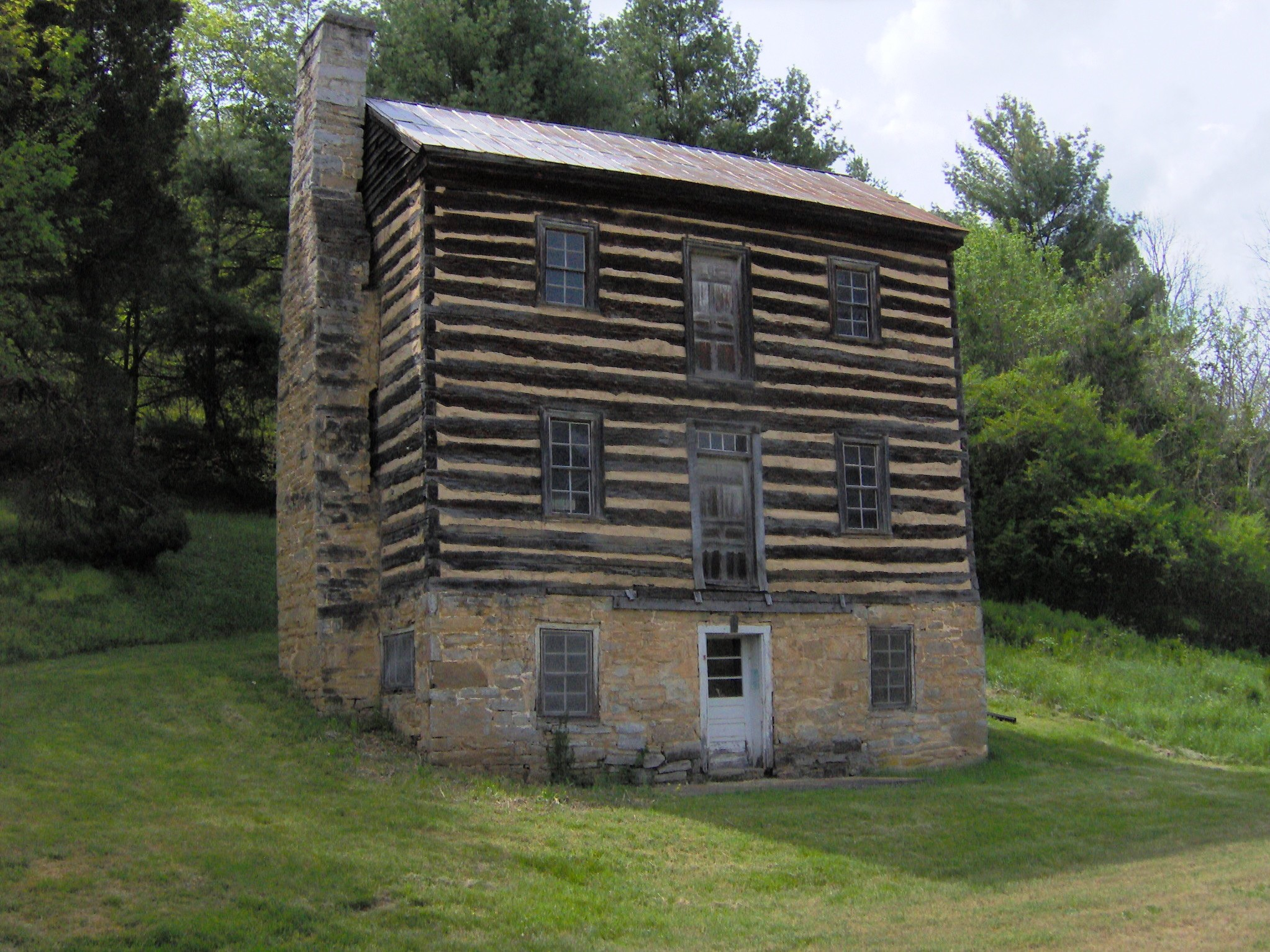 The Earnest Fort House (sometimes called the Mauris-Earnest Fort House after a later owner) in Greene County, in the U.S. state of Tennessee. This house, located just south of Chuckey on the banks of the Nolichucky River, was built around 1782 when Cherokee attacks were a serious threat. One of the oldest standing houses in Tennessee, it was added to the National Register of Historic Places in 1978, and in 2002 became part of the Earnest Farms National Historic District. Coordinates: N 36.20546, W 82.68414